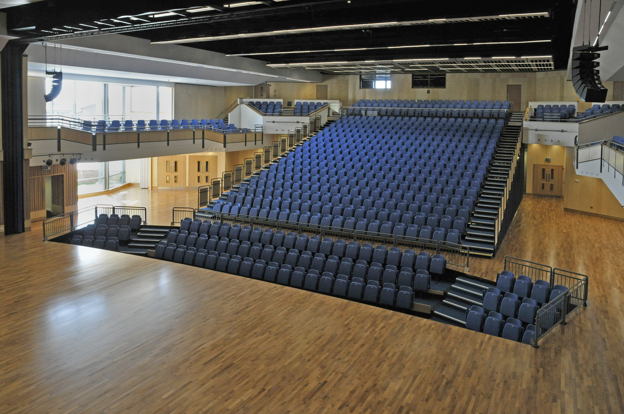 Interior of Saffron Hall with 740 blue seats and wooden floor